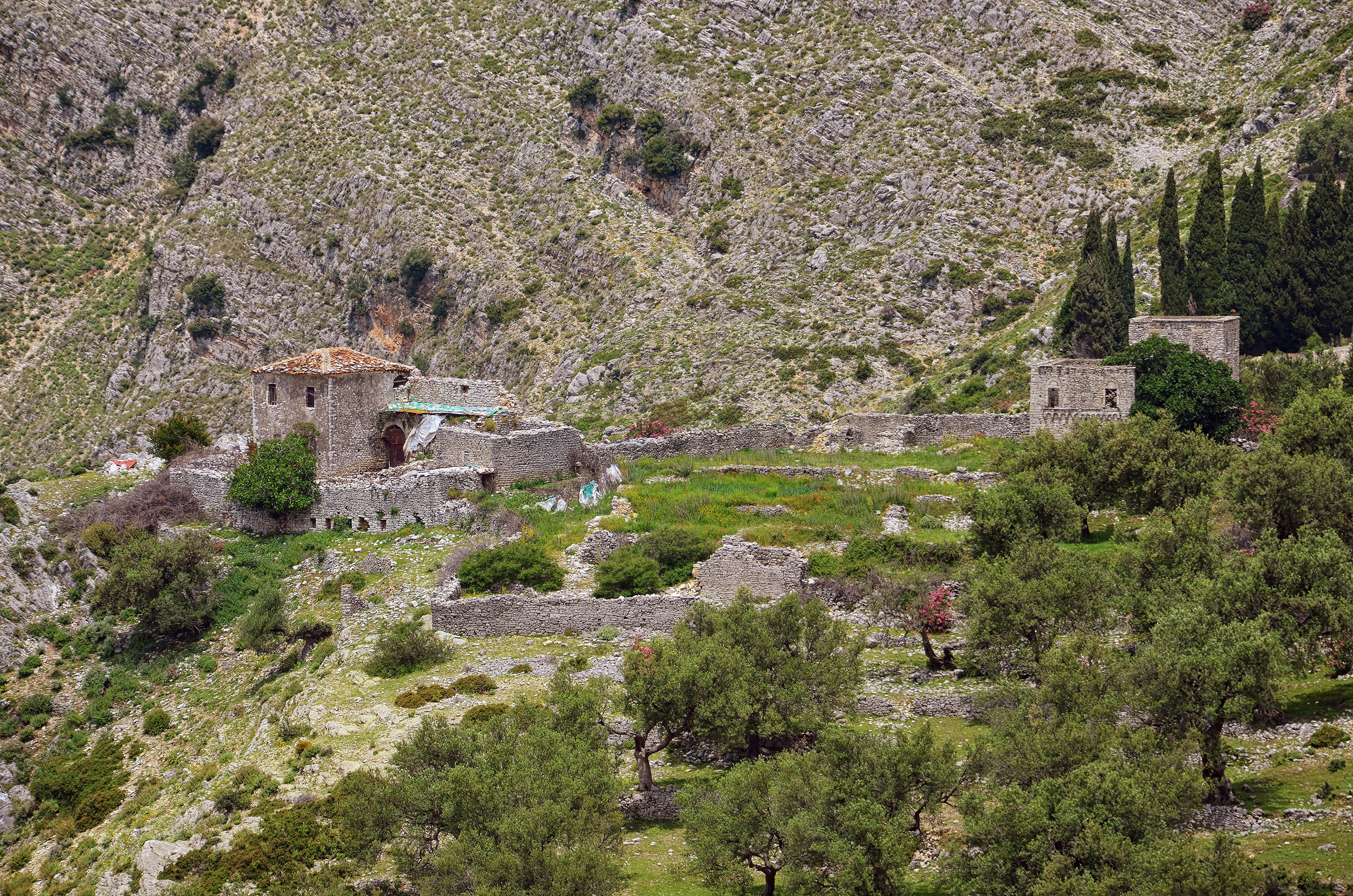 19th-century tower houses in Qeparo i Sipërm, Himarë, Albania